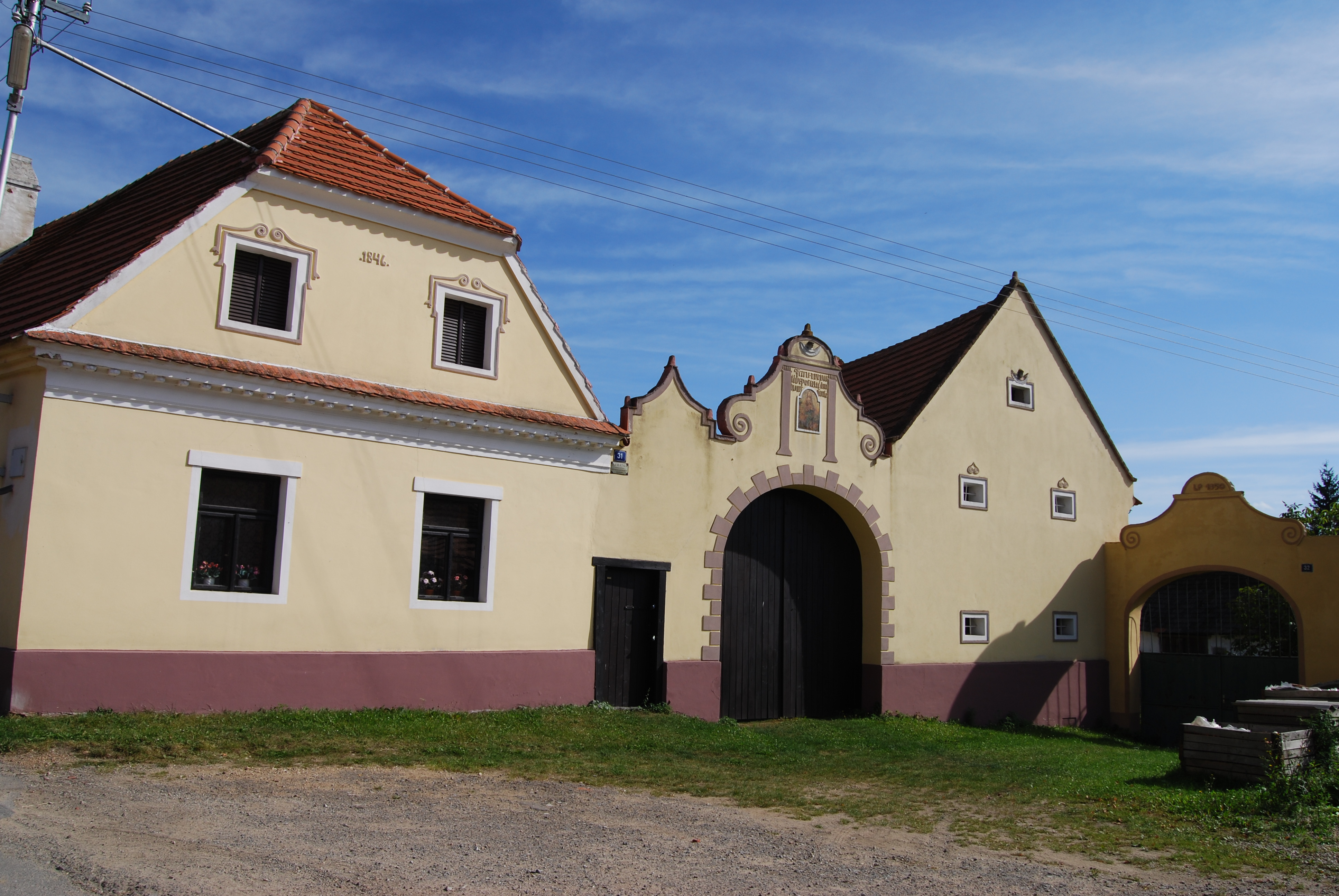 House No 31 in Hracholusky village in Prachatice District, Czech Republic.